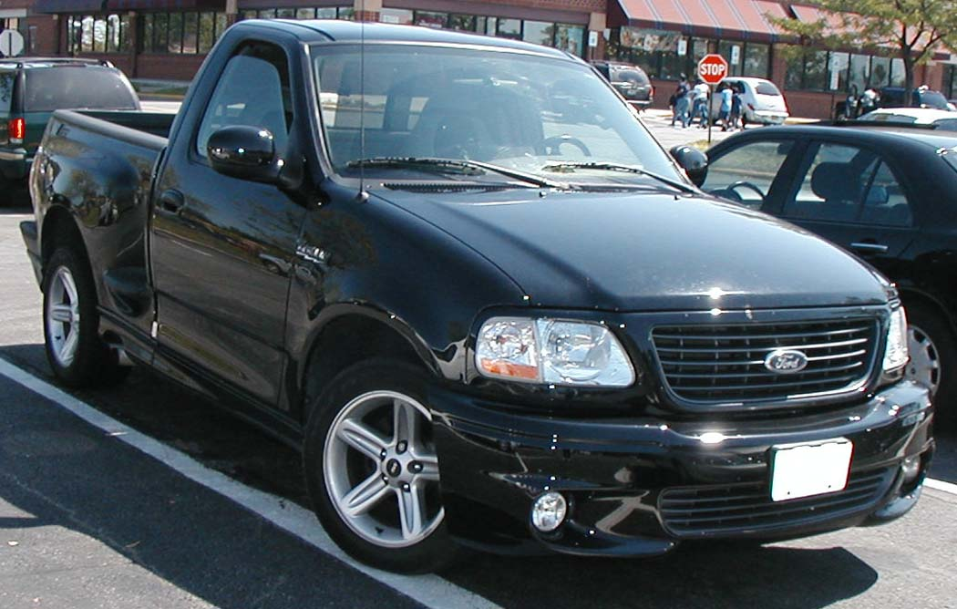 1999-2004 Ford F-150 SVT Lightning photographed in USA.